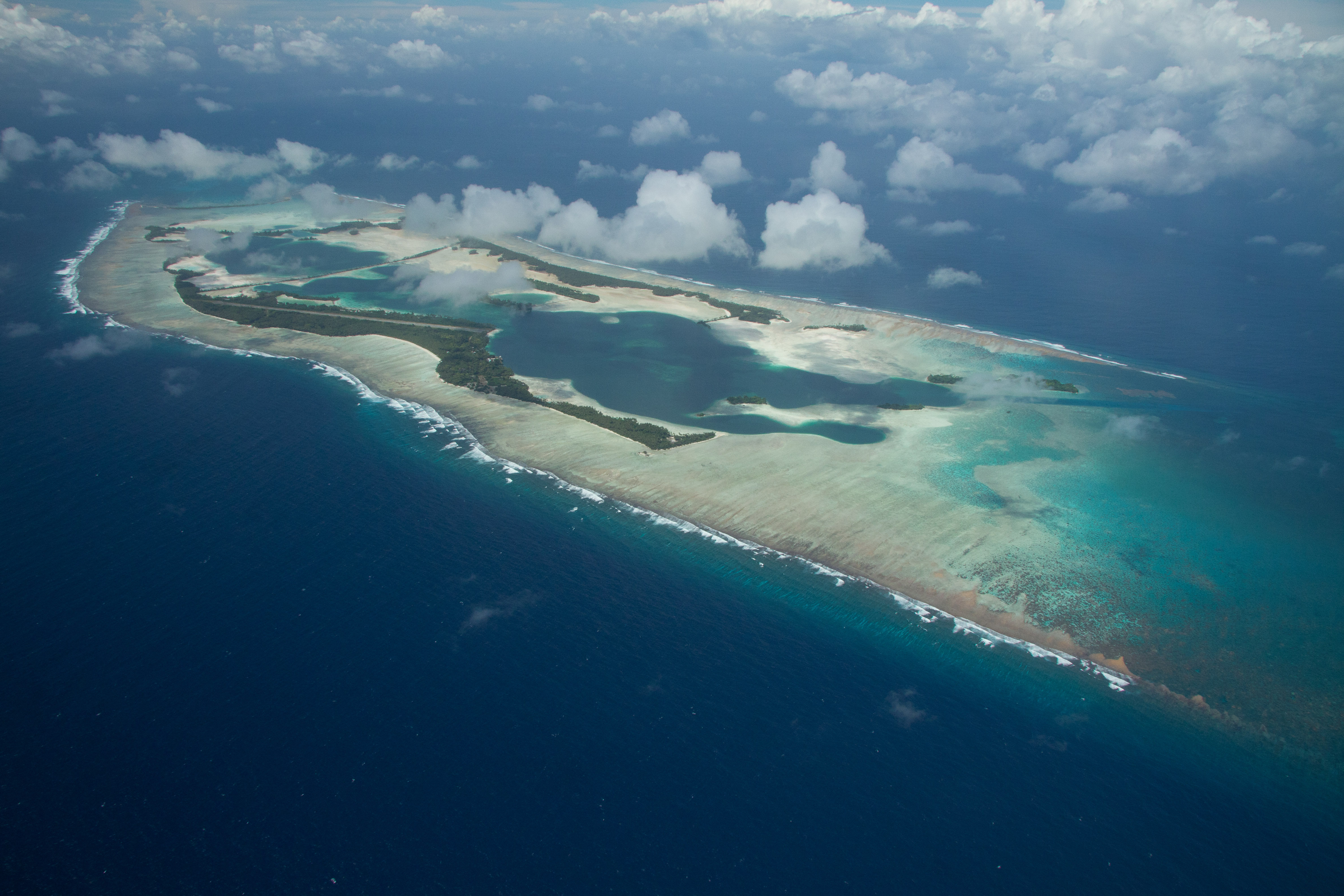 Palmyra Atoll NWR. Photo credit: Erik Oberg/Island Conservation